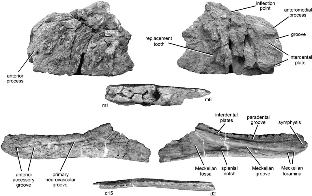 Left maxilla (A) and left dentary (B) of carcharodontosaurid theropod Kelmayisaurus petrolicus Dong, 1973 (IVPP V 4022, China, Lianmugin For− mation, Lower Cretaceous). Photographs in lateral (A1, B1), medial (A2, B2), ventral (A3), and dorsal (B3) views. Scale bars 5 cm. Designation “d” refers to dentary tooth, designation “m” refers to maxillary tooth position. Dorsal view of dentary shows tooth row only.